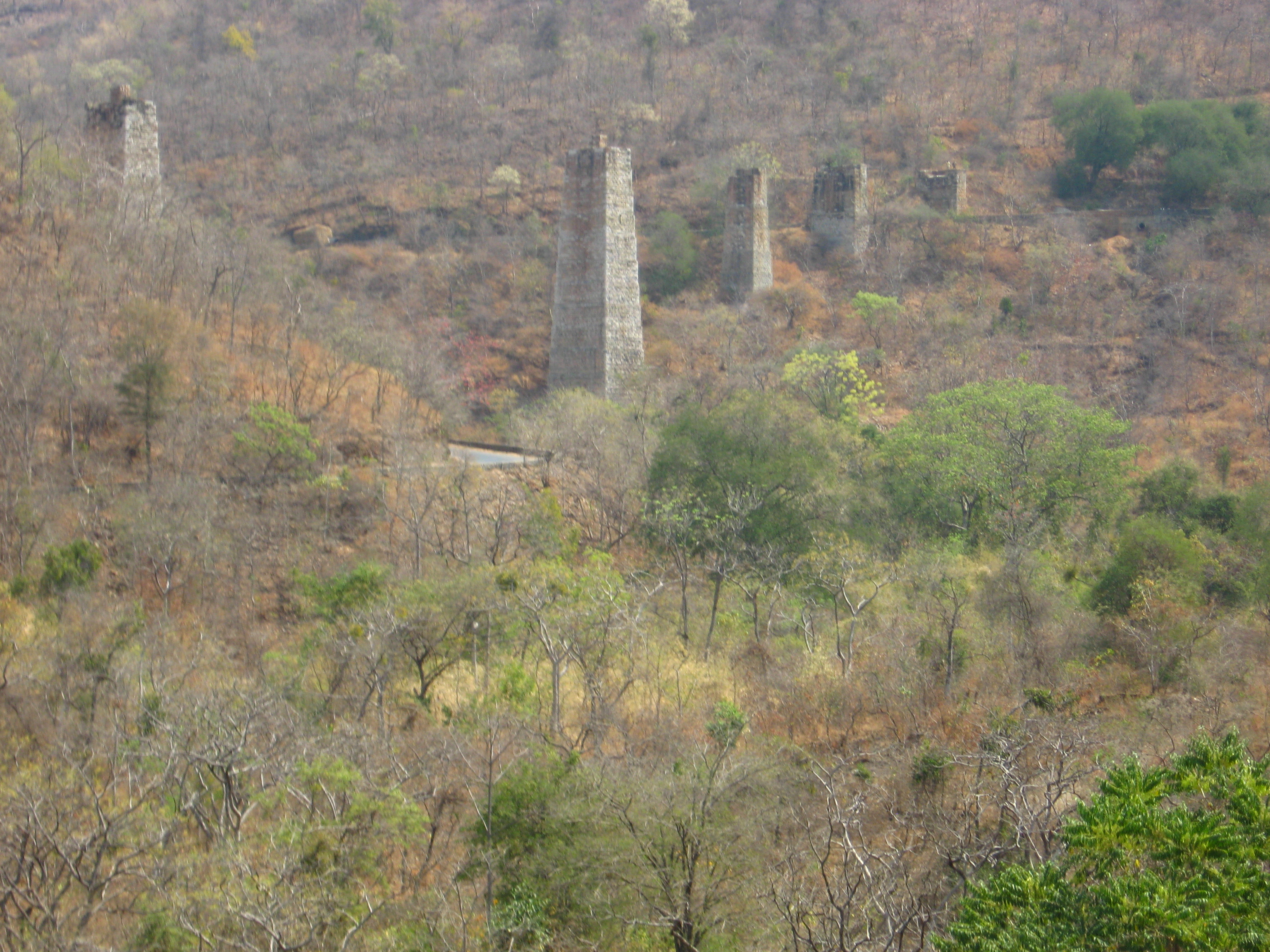 The remains of Dorabavi Viaduct of Southern Mahratta Railway,Nallamala Hills.